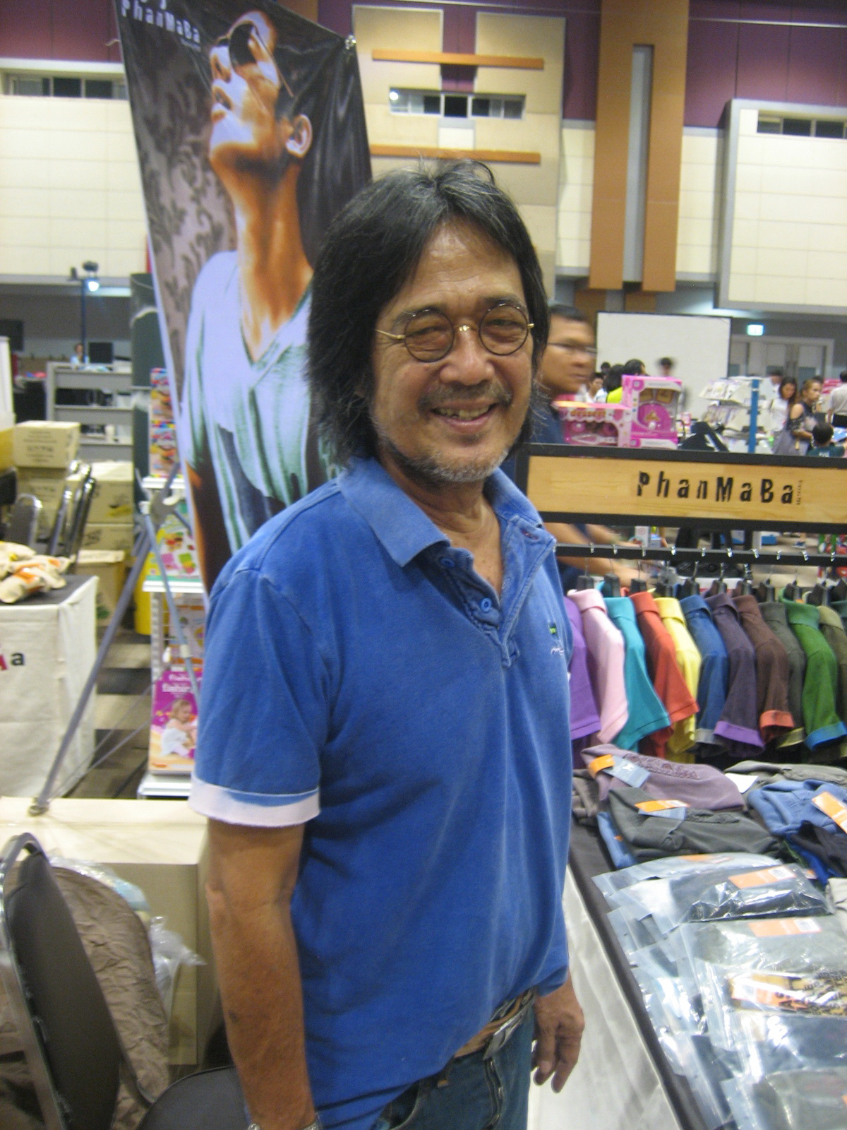 Chart Korbjitti in Book Fair at CentralPlaza Rama 2 Bangkok 01.03.2018